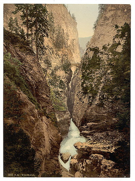 Canyon of the Viamala, Rhine in Switzerland